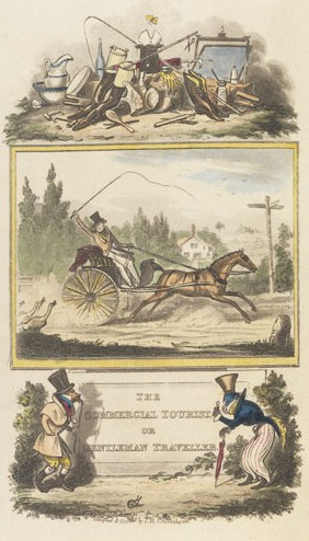 Illustration from The Commercial Tourist, or, Gentleman traveller (1822) by Charles William Hempel.